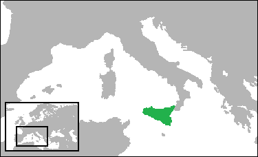 Locator map showing the Kingdom of Sicily (1282-1816)